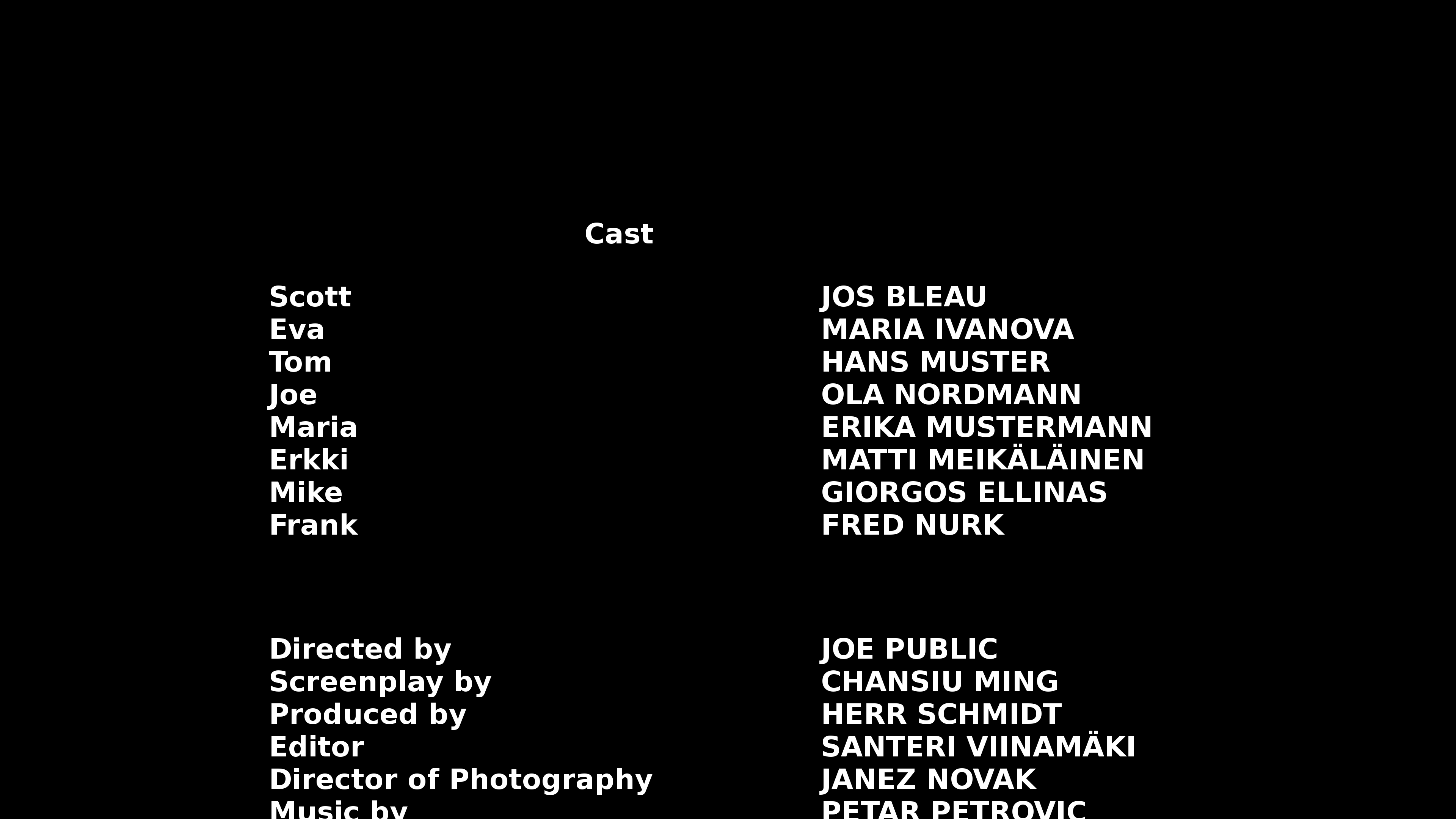 Example motion picture closing credits.